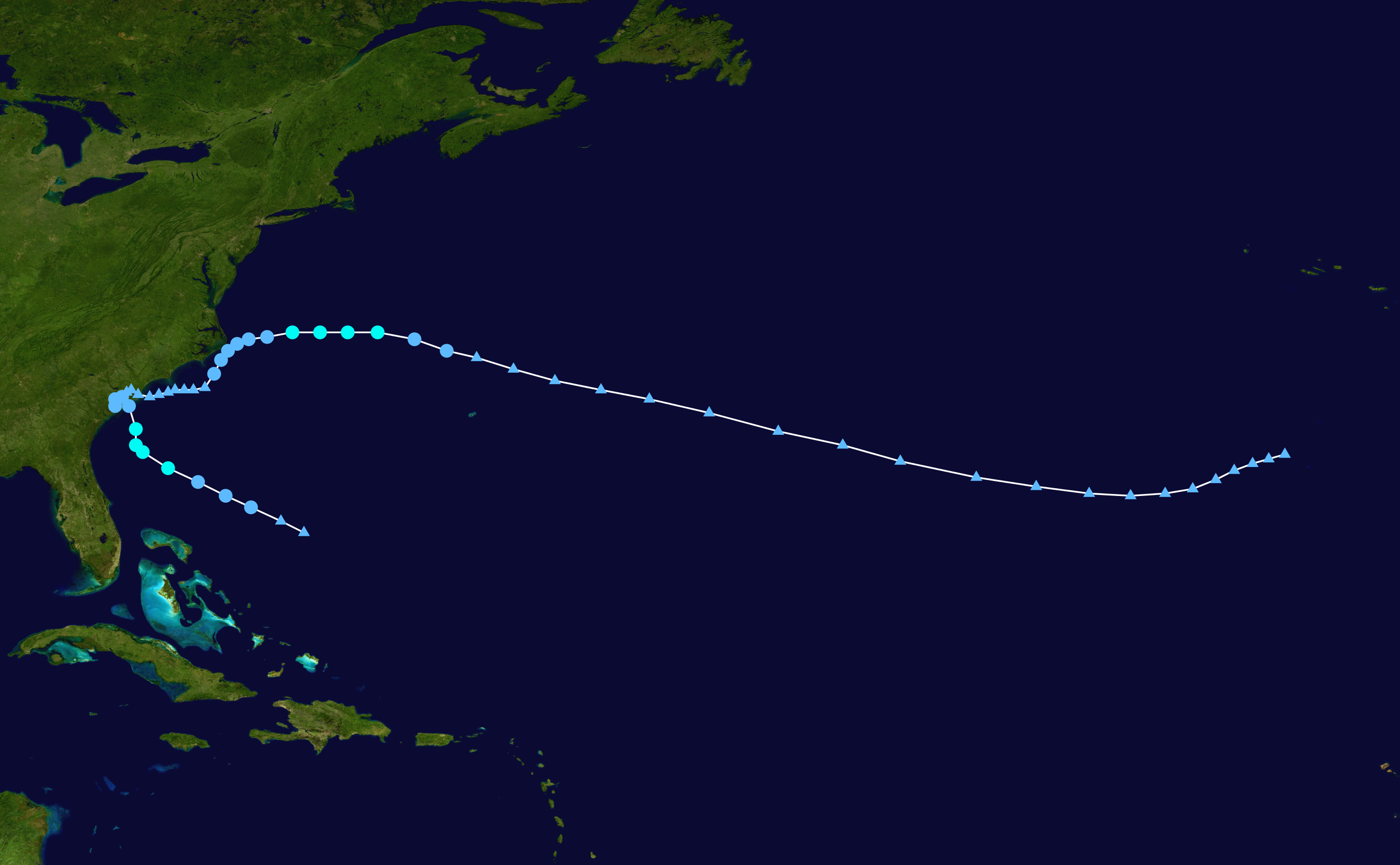 Track map of Tropical Storm Bonnie of the 2016 Atlantic hurricane season. The points show the location of the storm at 6-hour intervals. The colour represents the storm's maximum sustained wind speeds as classified in the Saffir–Simpson scale (see below), and the shape of the data points represent the nature of the storm, according to the legend below. Saffir–Simpson scale Tropical depression≤38 mph≤62 km/h Category 3111–129 mph178–208 km/h Tropical storm39–73 mph63–118 km/h Category 4130–156 mph209–251 km/h Category 174–95 mph119–153 km/h Category 5≥157 mph≥252 km/h Category 296–110 mph154–177 km/h Unknown Storm type Tropical cyclone Subtropical cyclone Extratropical cyclone / Remnant low / Tropical disturbance / Monsoon depression